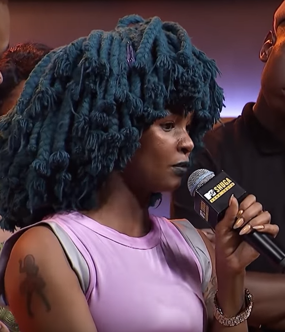 Screenshot from a preview video for MTV Shuga Down South in Feb 2019. See tile for detail